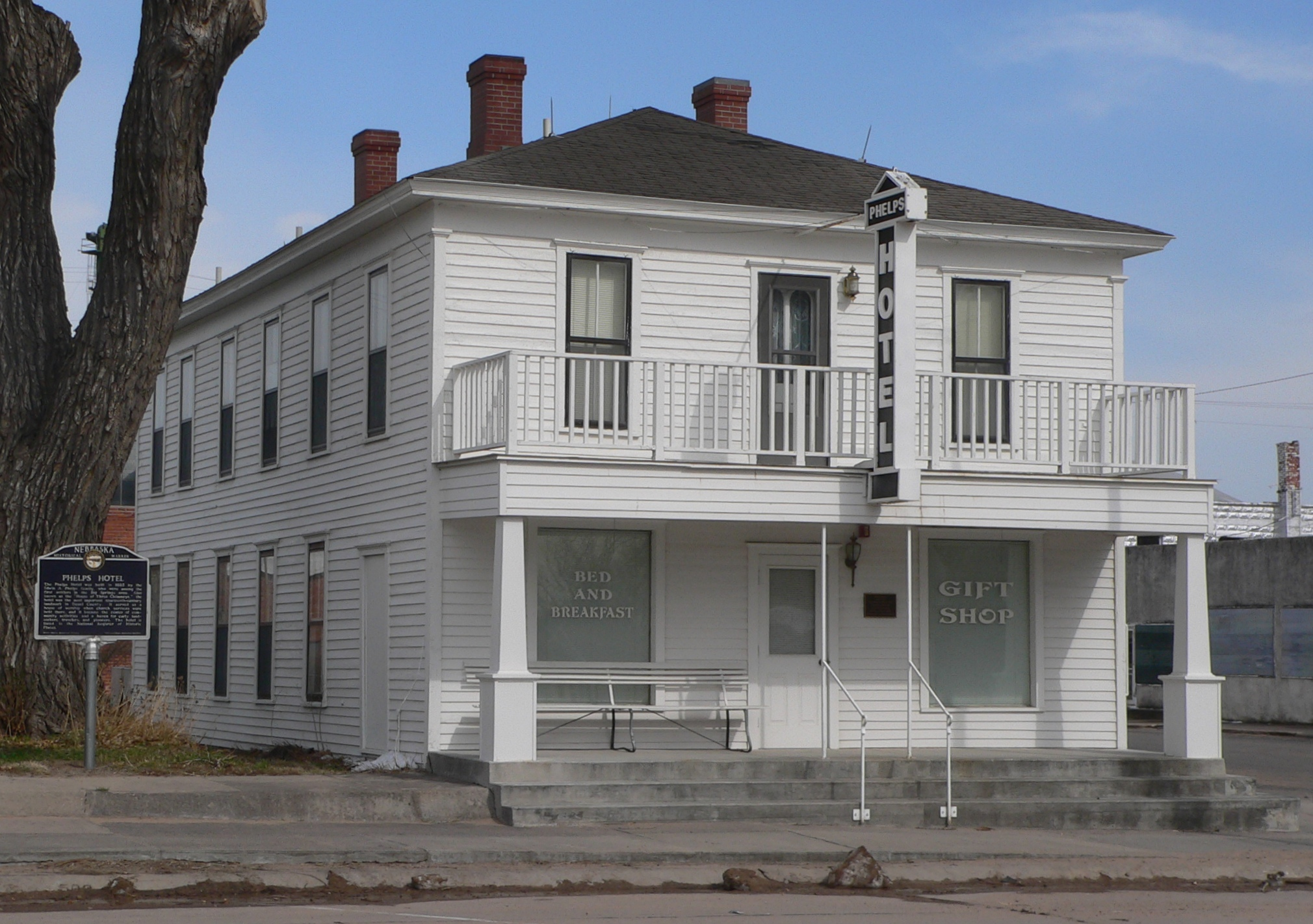 Phelps Hotel in Big Springs, Nebraska; seen from the northwest